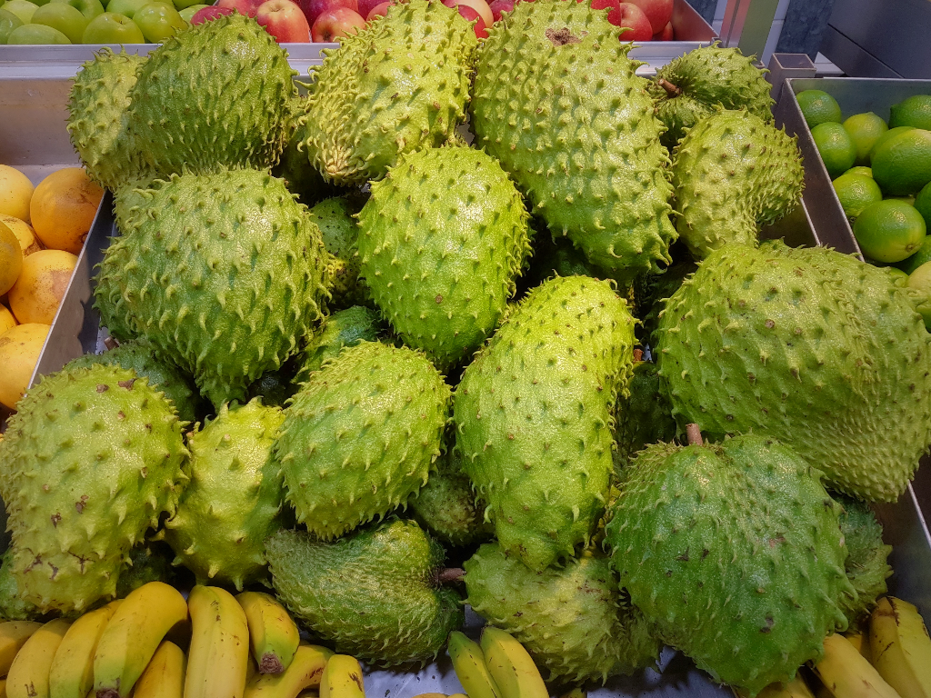 Soursop is the fruit of Annona muricata, a broadleaf, flowering, evergreen tree.